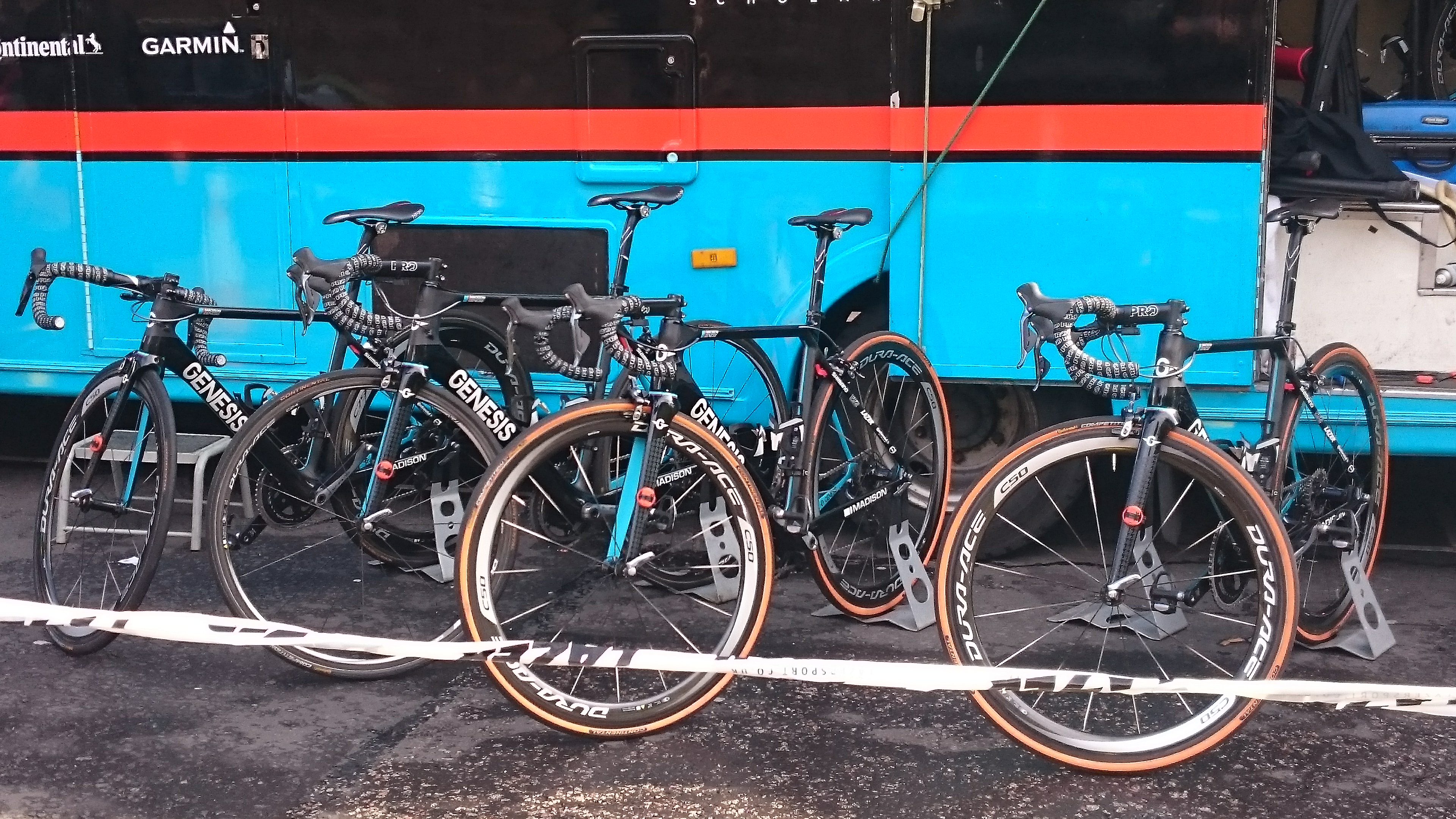 The Genesis bikes of the Madison Genesis team at Round 3 of the Pearl Izumi Tour Series in Edinburgh, on 19 May 2016